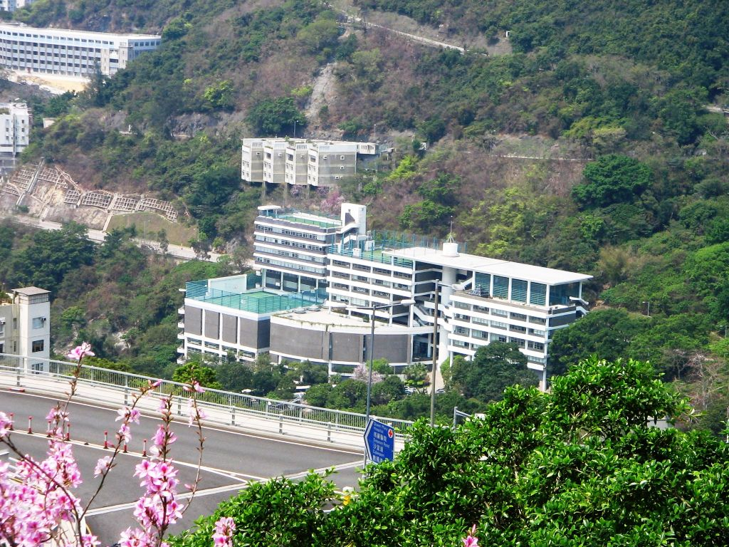 Photograph taken by mintchocicecream on 24 March 2005.